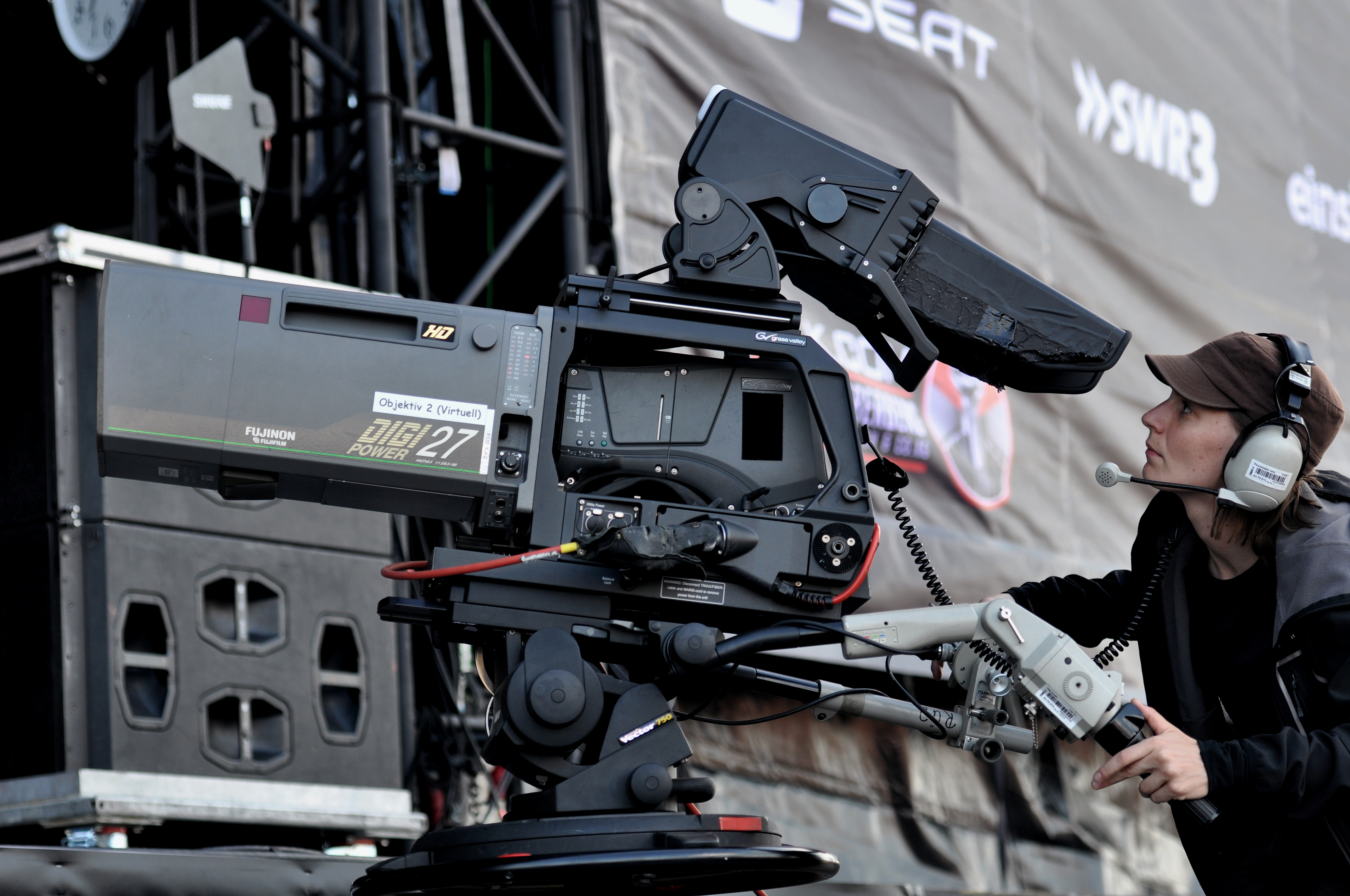 Film crew filming Amon Amarth at Rock am Ring 2013